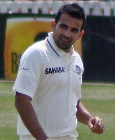 Zaheer Khan gives a Somerset batsman a wry smile while bowling during the first match of India's 2011 tour of England, played at the County Ground, Taunton